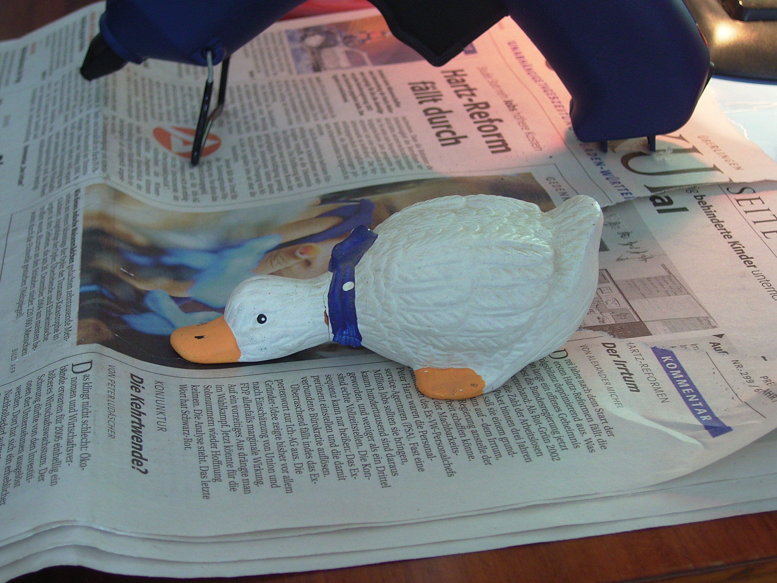 A terracota Animal, which got broken